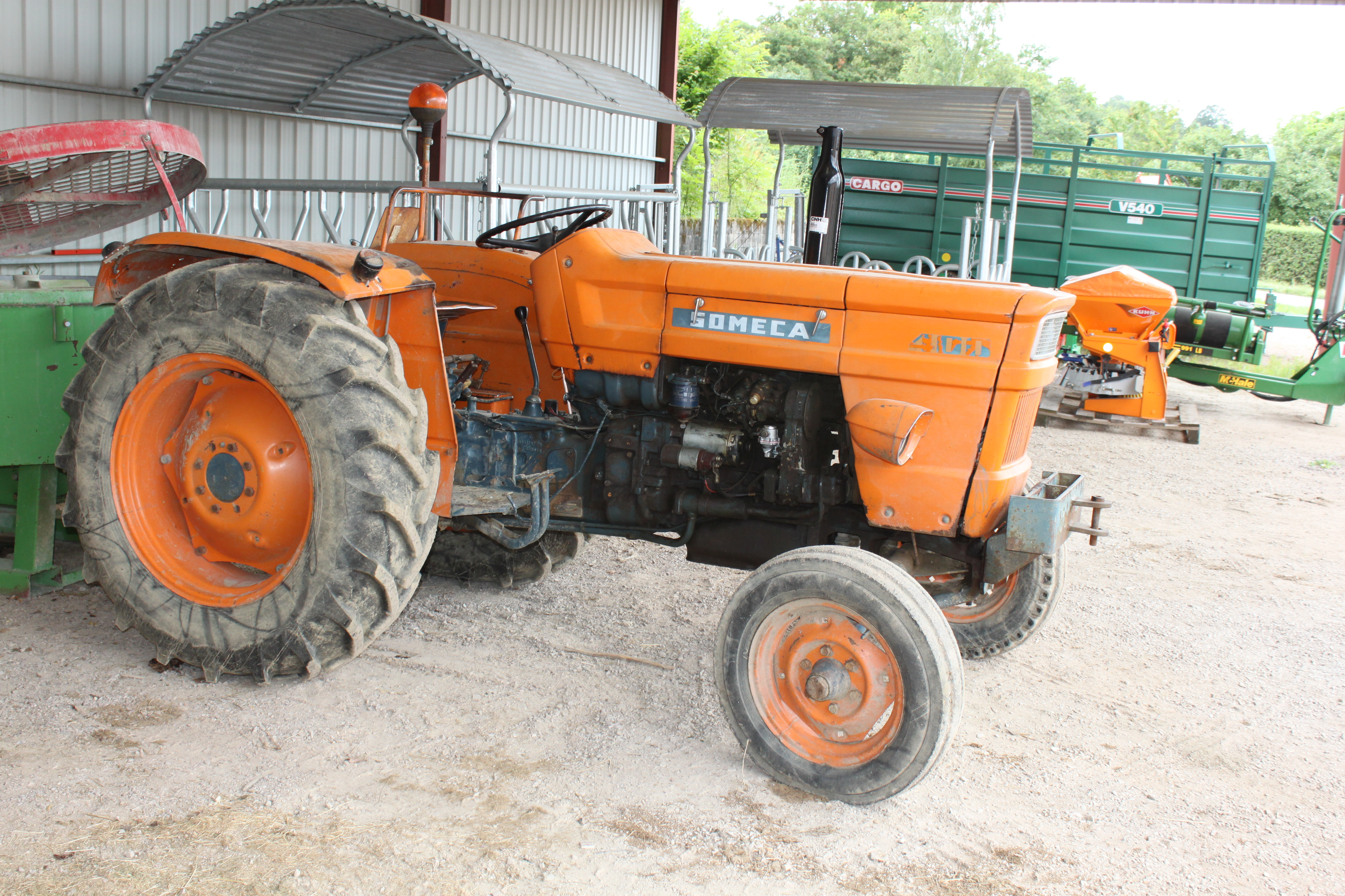 Someca 400, built between 1968 and 1971, engine power of 38 hp at 2200 rev, weight 1700 kg, length 3,17 m overall, Motor is from Fiat 853, with 3 zylinders and 2340 cm3 Picture right hand side